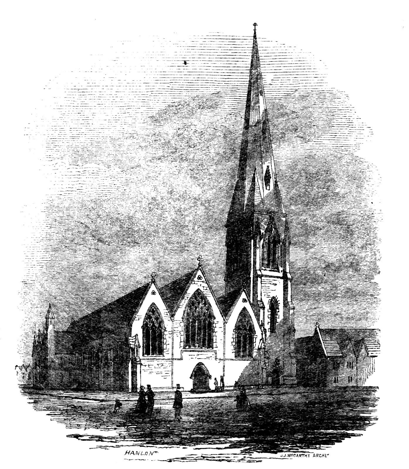 Figure 11 of Suggestions on the Arrangement and Characteristics of Parish Churches, depicting St. Mary's, Star of the Sea, in Sandymount, Dublin. At the time when this drawing was printed the construction had just begun some months ago. The tower was never built. In the corresponding text, the figure is refered to in two footnotes. The first appears on p. 10: Figures 3 and 4 will be familiar to the eyes of many, as general types of the external character of our modern Churches. It will be well to compare their effect with that of figures 10 and 11, pages 21 and 35, which illustrate Churches designed correctly after ancient ecclesiastical examples. The second footnote refering to it is on p. 23: In the new Church of St. Mary, “Star of the Sea,” Irishtown, the tower will stand at the south-west angle. See H, figure 9, page 19, and figure 11, page 35. Patrick Hanlon Description Irish draughtsman Work period1830–1860